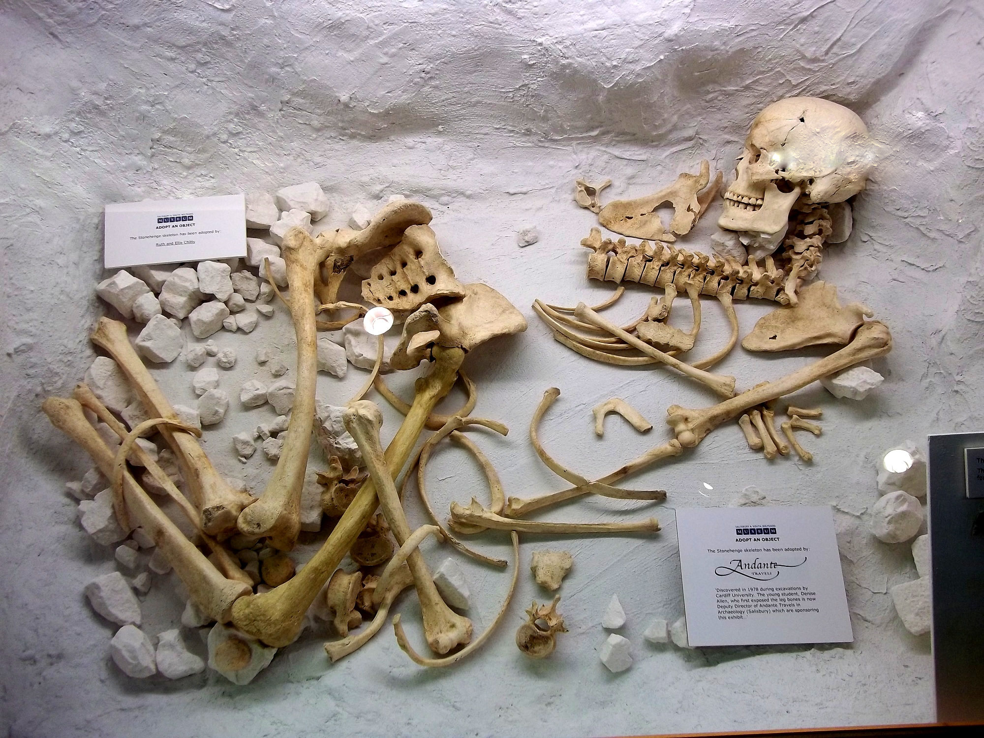 The Stonehenge Archer. A Bronze Age man whose body was discovered in the outer ditch of Stonehenge. Now on display in the Salisbury and South Wiltshire Museum.